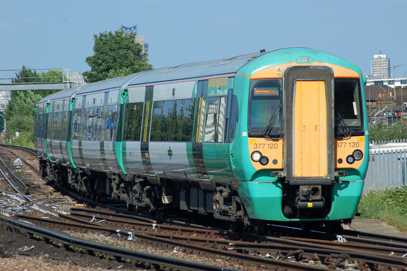 Southern 377112 departs Clapham Junction.